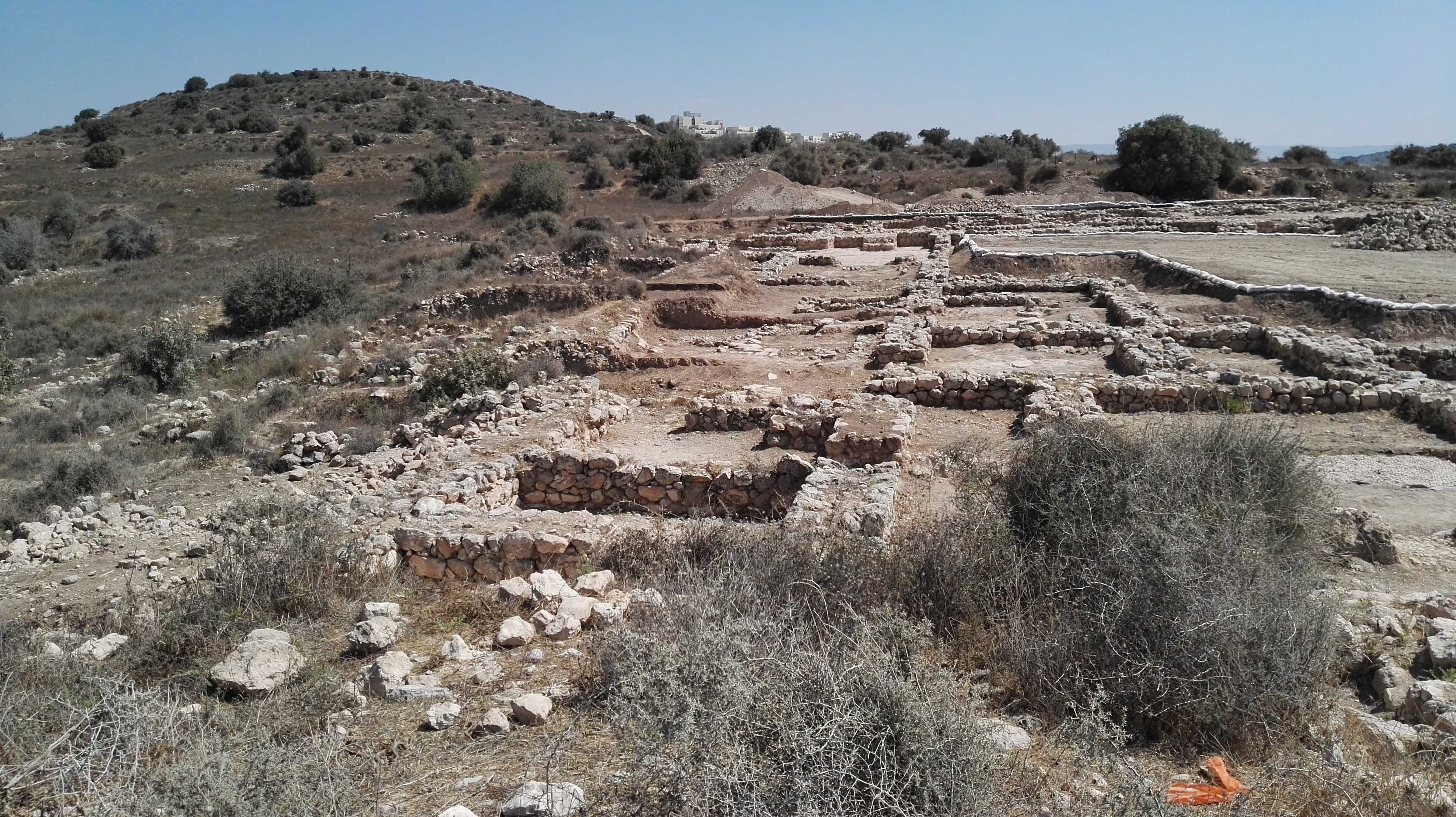 Tel Yarmuth in Beit Shemesh,Israel.